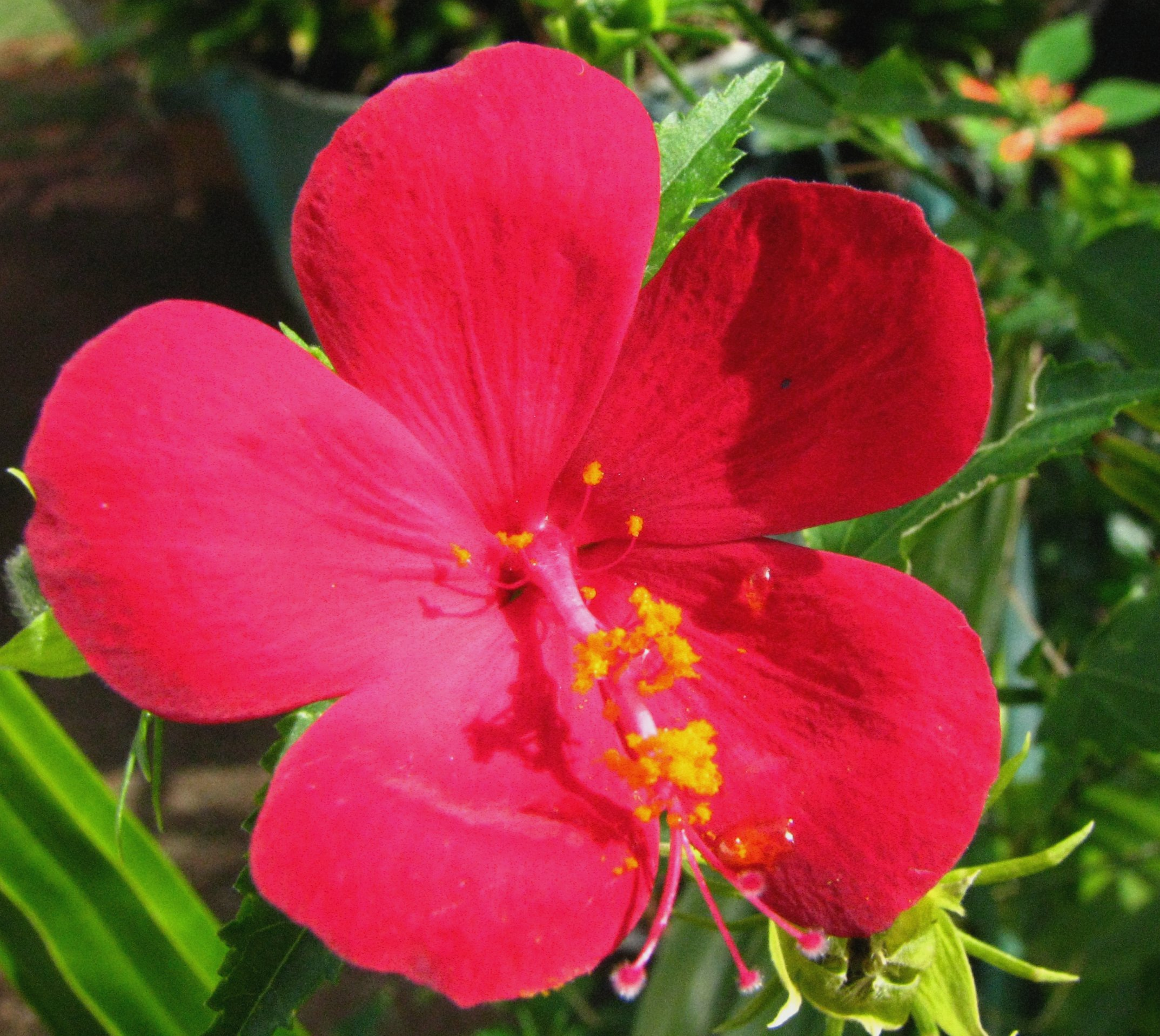 Dwarf hibiscus or Brazilian rosemallow Malvaceae Native to The Caribbean, Central America to northern South America Oʻahu, (Cultivated)